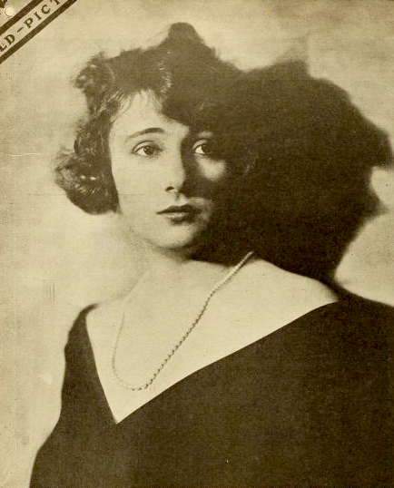 Photograph of Evelyn Greeley, from an ad for the American comedy film Phil-for-Short (1919).